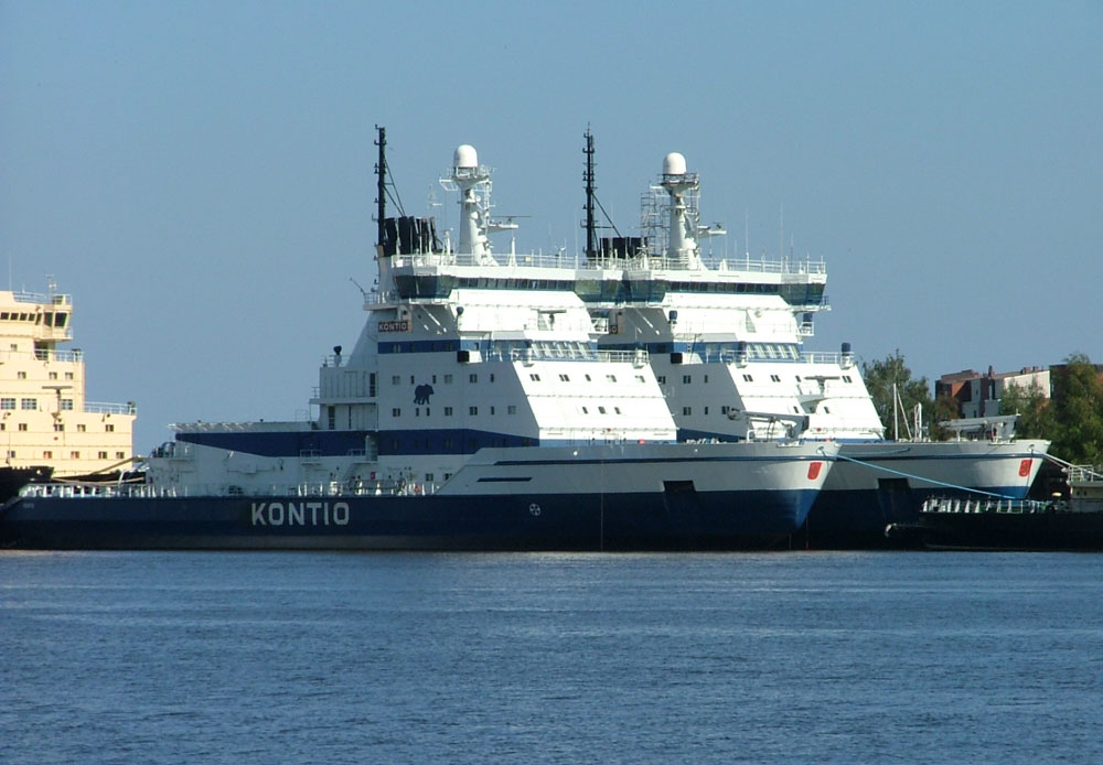 The icebreakers Kontio and Otso in Helsinki, docked for the summer season. Kontio: IMO Number: 8518120 MMSI Number: 230251000 Callsign: OIRV Length: 100 m Beam: 24 m Otso: IMO Number: 8405880 MMSI Number: 230252000 Callsign: OIRT Length: 99 m Beam: 25 m